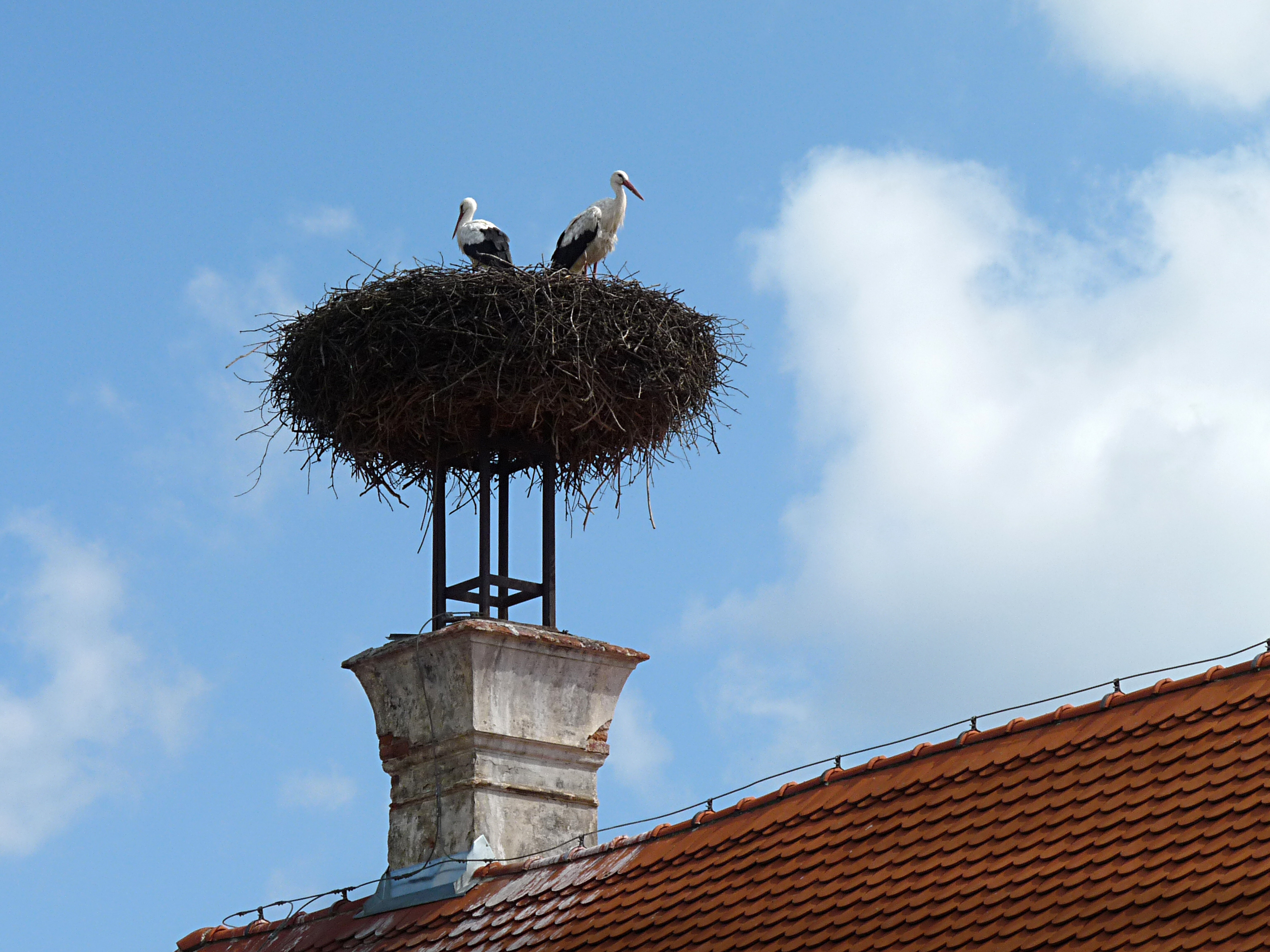 Storks nesting every year at Hunting Lodge Ohrada near Hluboká nad Vltavou, Czech Republic